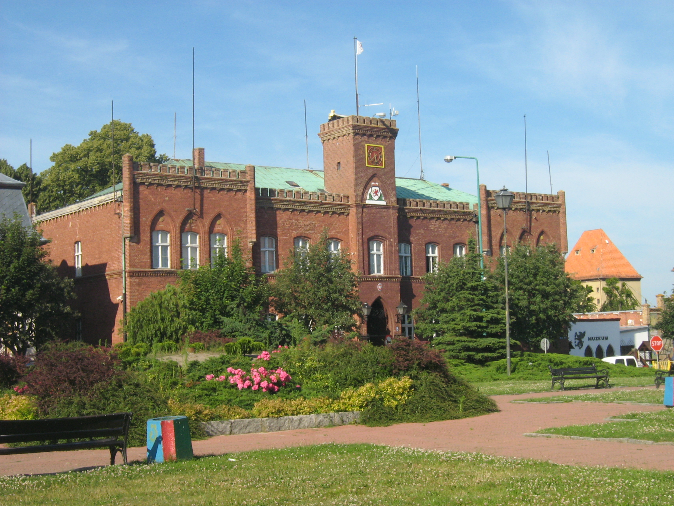 Poland, Wolin - view of Town Hall.